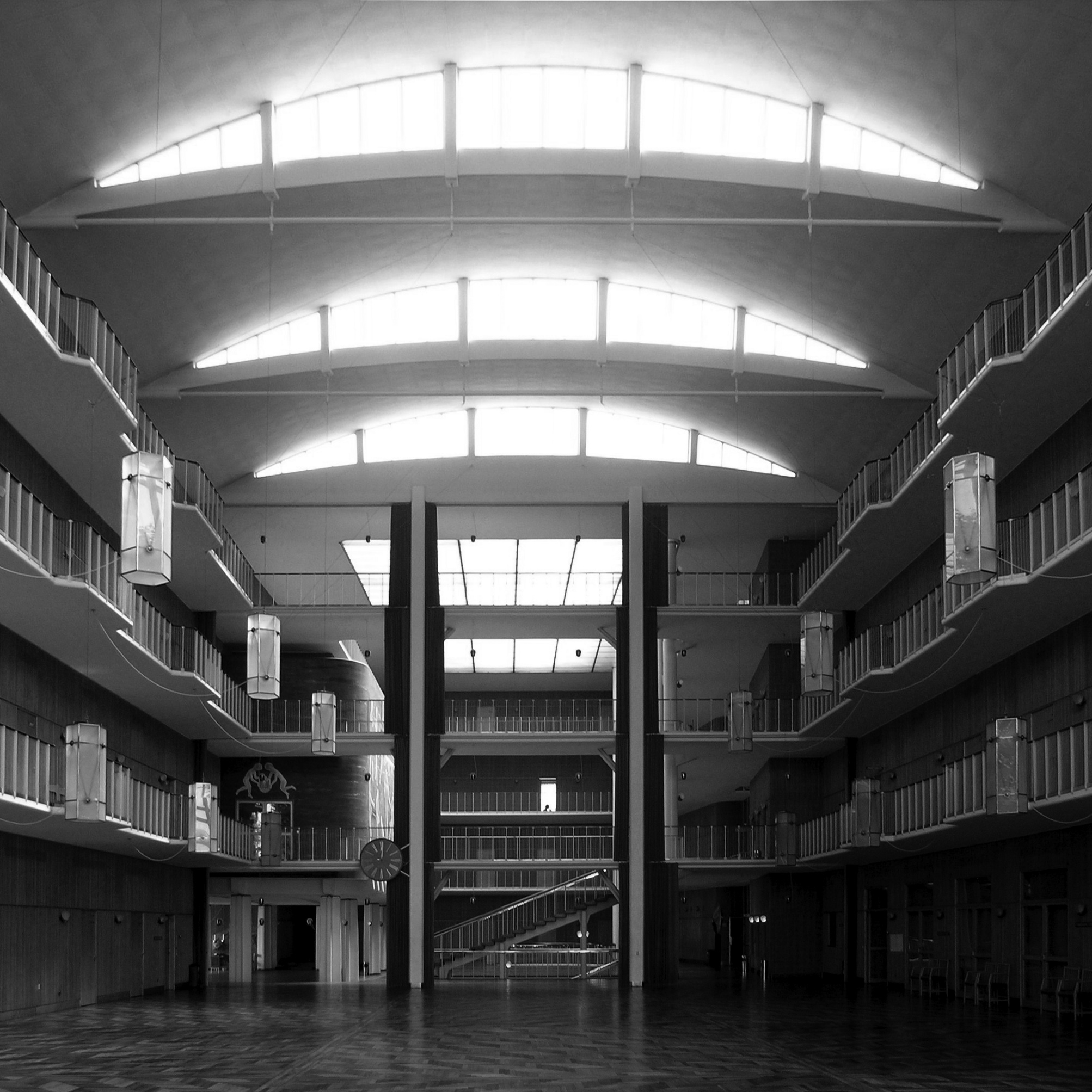 aarhus town hall, aarhus, denmark, 1937-1942. architects: arne jacobsen, 1902-1971 with erik møller, 1909-2002. looking from the main hall into the entrance hall with their two distinct skylights. more arne jacobsen